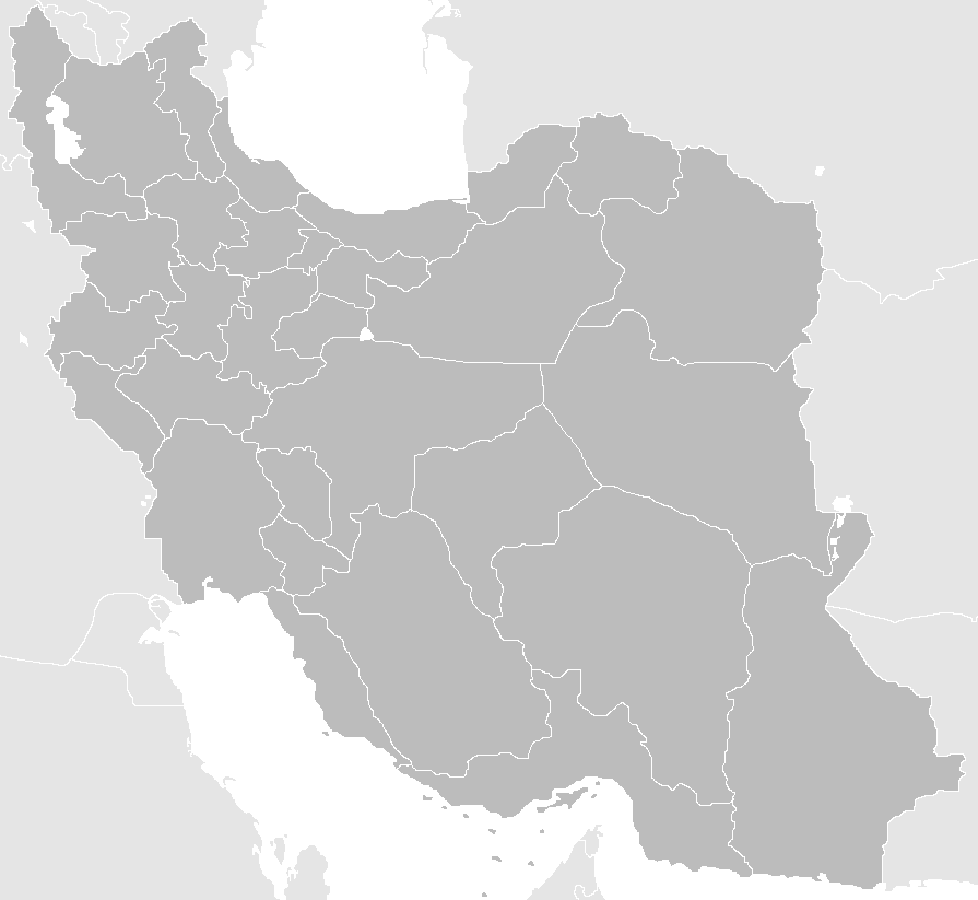 Blank Map of the territory claimed by Iran With Water Bodies and Neighbors